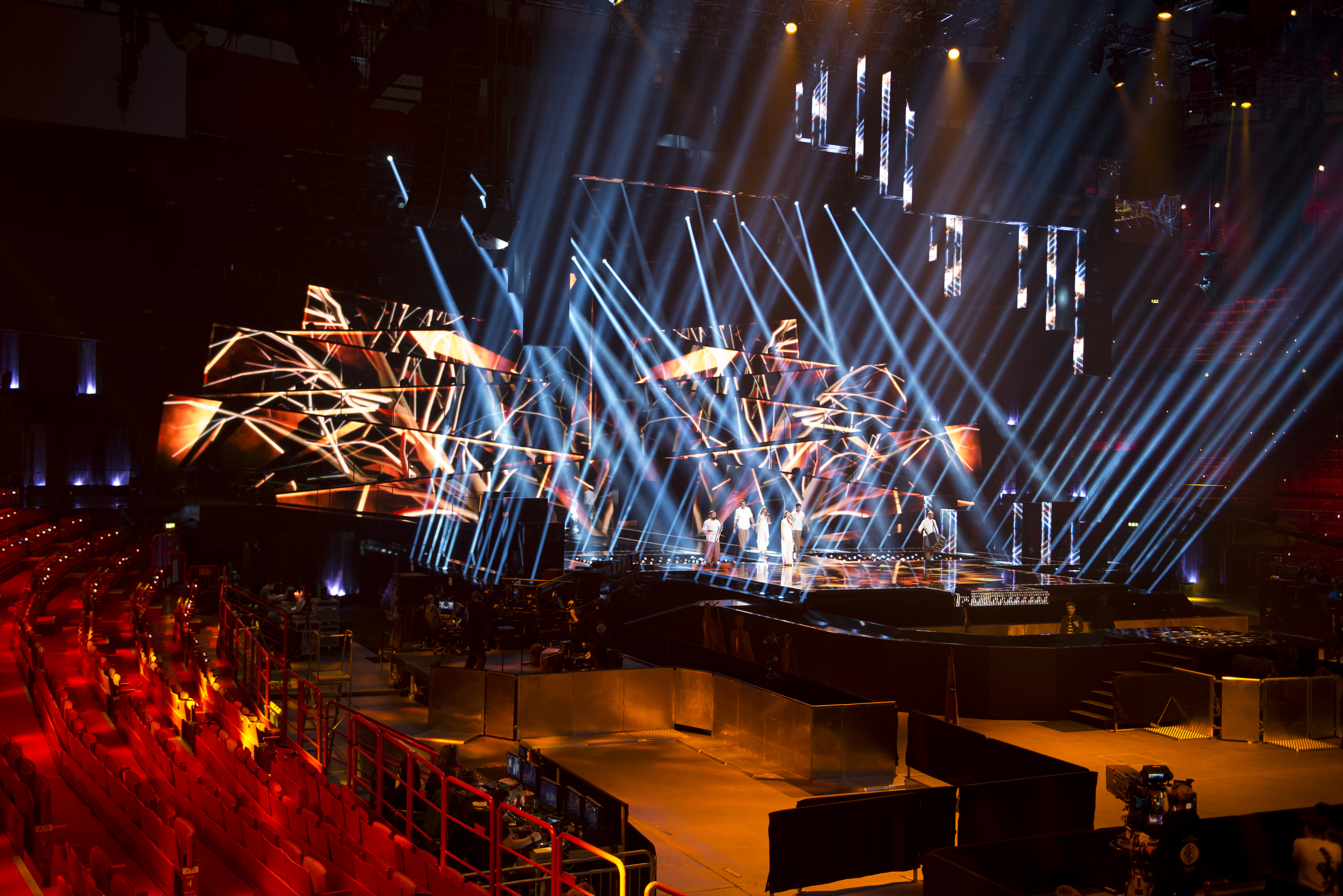 Argo representing Greece with the song "Utopian Land" during a rehearsal before the first semi final of the Eurovision Song Contest 2016 in Stockholm. (Help translate this text)